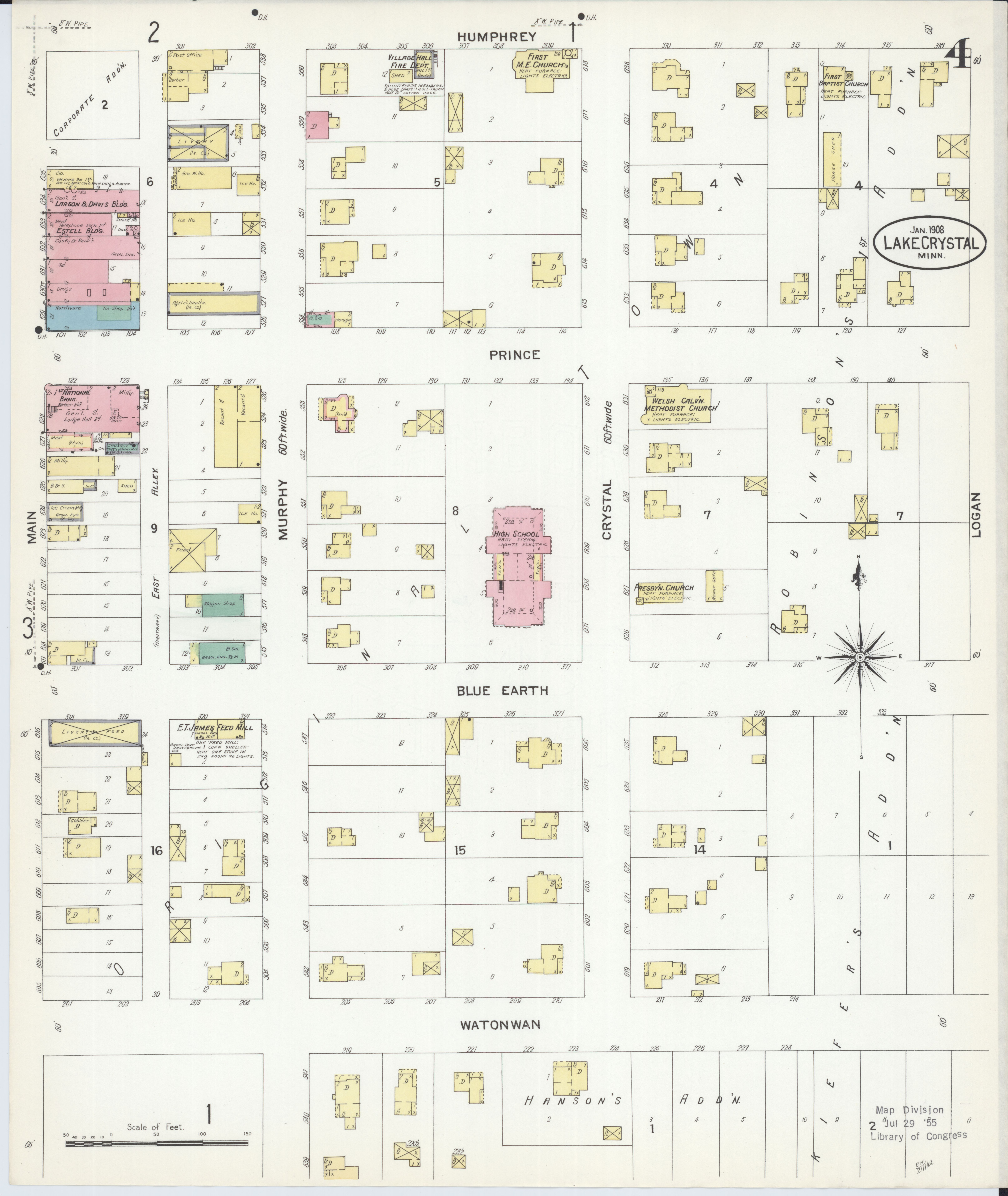 Jan 1908. 4 Sheet(s).